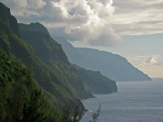 Na'Pali Coast at Nā Pali Coast State Park, Kaua'i, Hawaii.